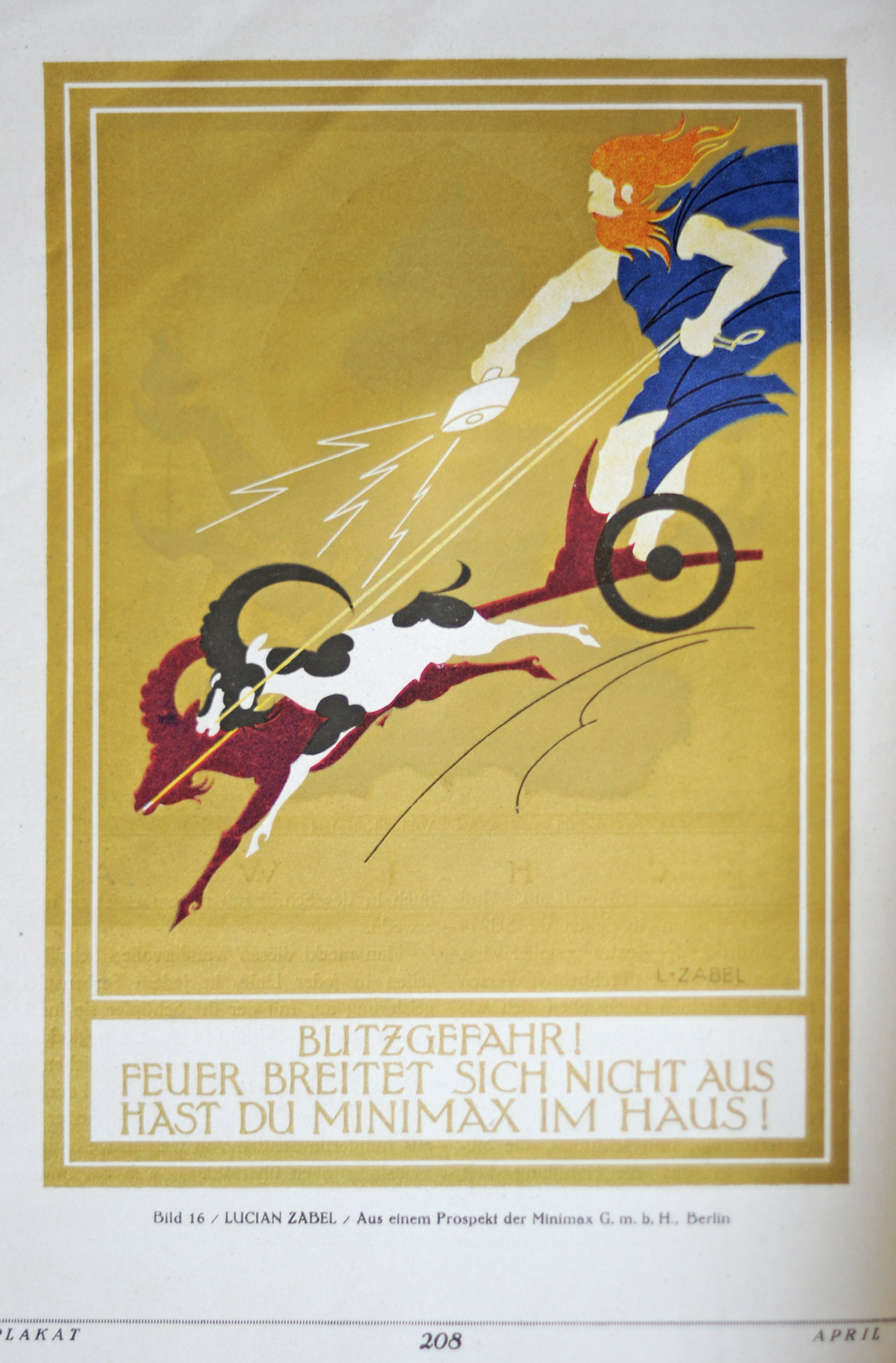 Ad for Minimax, a producer of fire extinguishers; in: Das Plakat, Zeitschrift des Vereins der Plakatfreunde, Volume 12, Issue 4, April 1921, Page 208